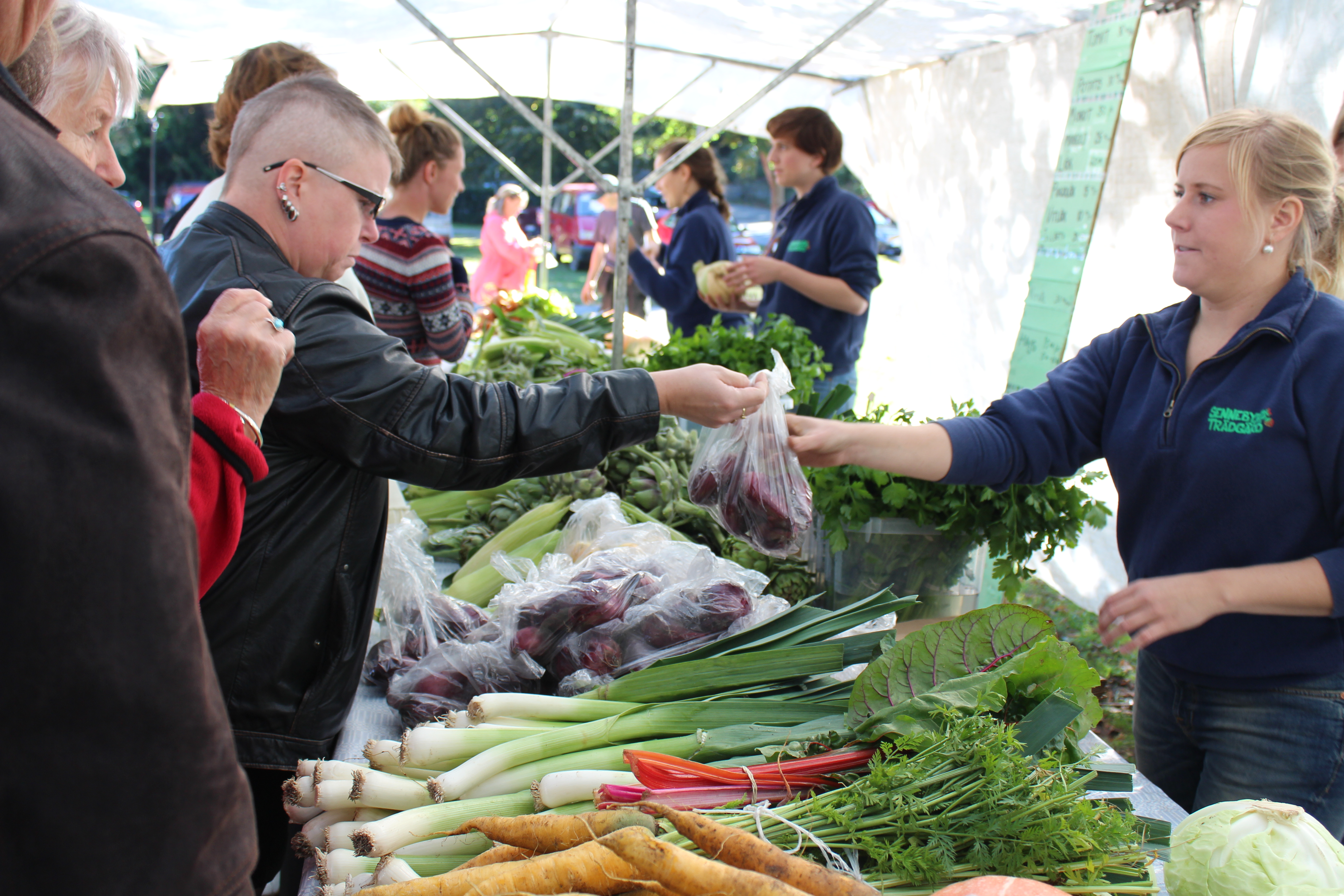 Trade at the green market in the park Socitetsparken, Norrtälje, Sweden